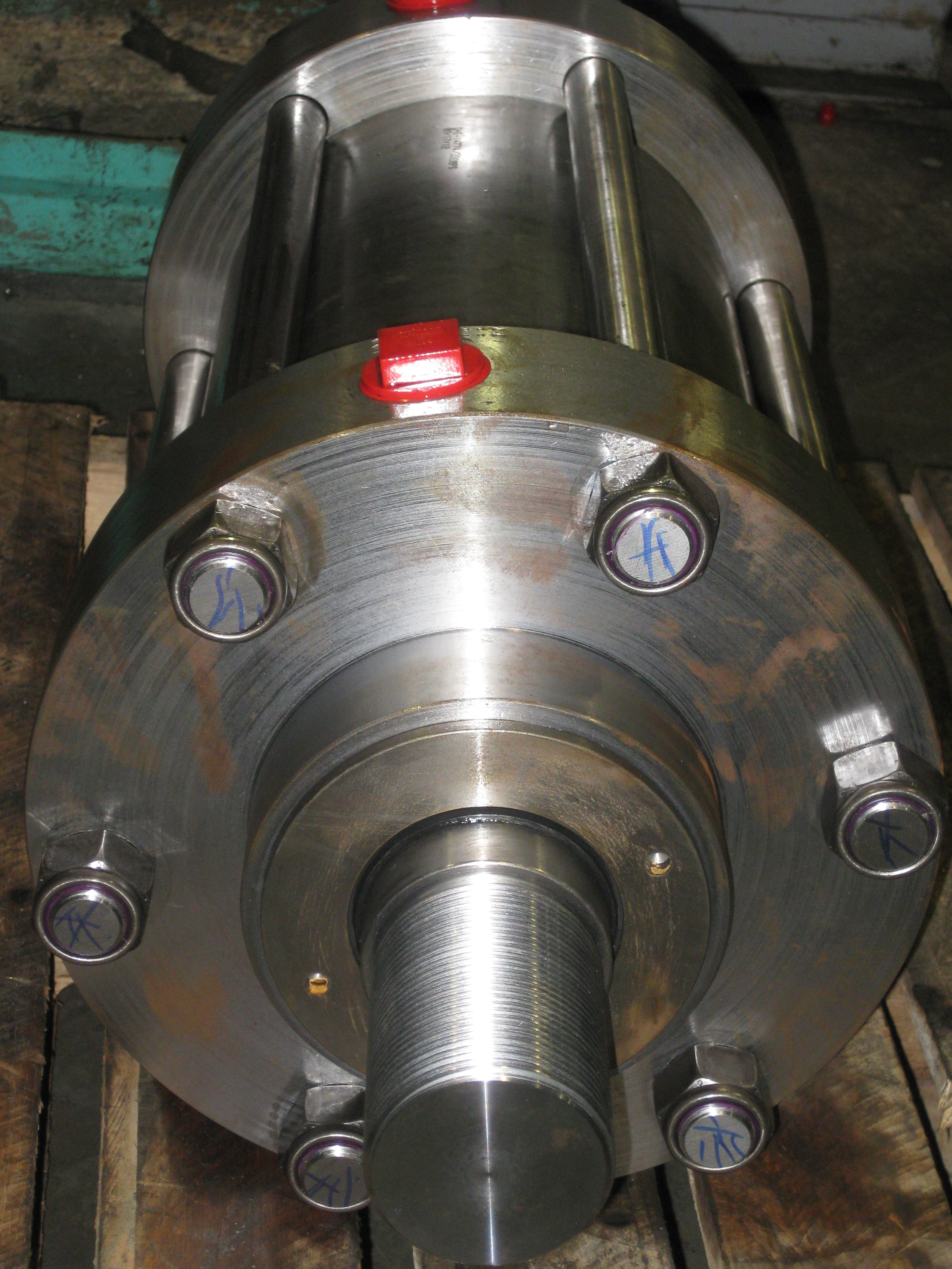 hydraulic cylinders,tie rod cylinders,custom and OEM cylinders,pistons,rods,cylinder rods,NFPA certified,ISO 9001 certified,cylinders,pneumatic cylinders,welded style cylinders,cilindros hidráulicos, cilindros atar varillas, las costumbres y los cilindros OEM, pistones, bielas, varillas, cilindros NFPA certificados, la certificación ISO 9001, cilindros, cilindros neumáticos, cilindros soldados de estilo